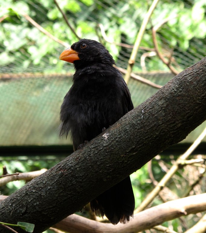 An adult male Black-throated Grosbeak at Pomerode Zoo, Santa Catarina, Brazil. As frequently happens in captives, the bill is duller (less red) than in wild adults.